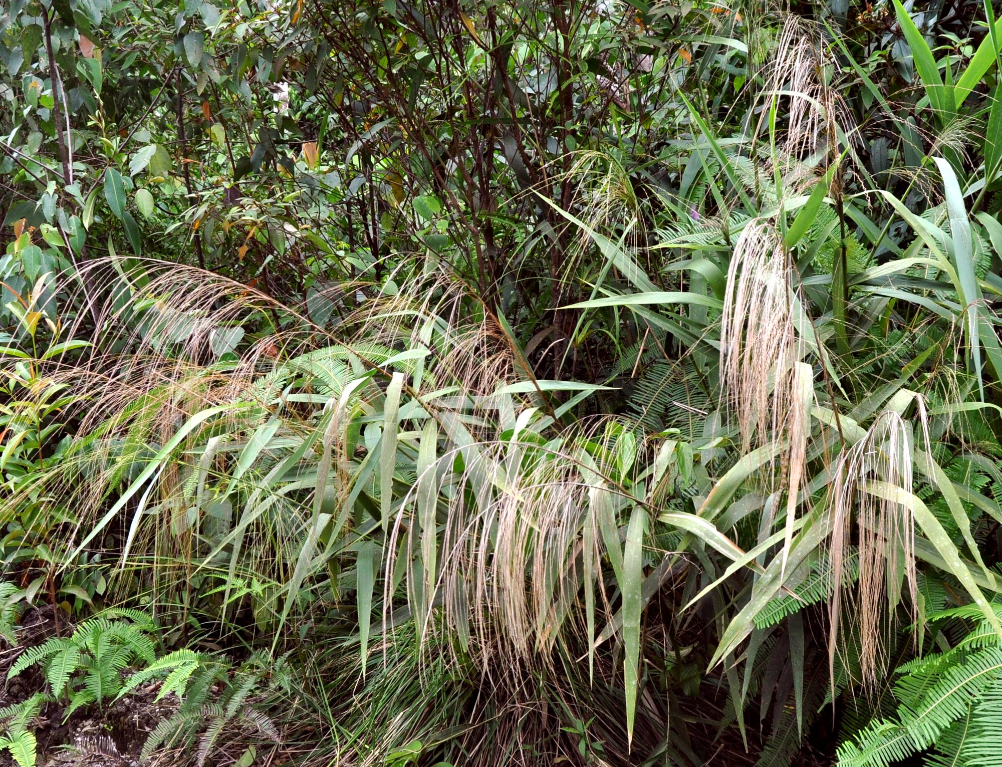 Thysanolaena latifolia, habits. From Simalungun, North Sumatra, Indonesia.